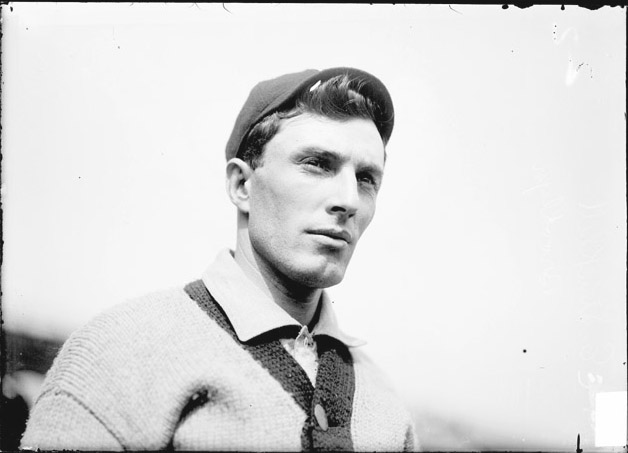 [Baseball player, Elmer Stricklett, Brooklyn Superbas, standing at West Side Grounds]. Chicago Daily News, Inc., photographer. CREATED/PUBLISHED 1905. SUMMARY Head and shoulders portrait of Elmer Stricklett, baseball player for the National League Brooklyn Superbas, pitcher, standing at West Side Grounds, which was located between West Polk Street, South Wolcott Avenue (formerly Lincoln Street), West Taylor Street, and South Wood Street, in the Near West Side community area of Chicago, Illinois. NOTES This photonegative taken by a Chicago Daily News photographer may have been published in the newspaper. Cite as: SDN-003273, Chicago Daily News negatives collection, Chicago History Museum. SUBJECTS Stricklett, Elmer. Brooklyn Superbas (Baseball team) National League of Professional Baseball Clubs West Side Grounds (Chicago, Ill.) Pitchers (Baseball)--New York (State)--New York--1900-1909. Baseball players--New York (State)--New York--1900-1909. Near West Side (Chicago, Ill.)--1900-1909. Chicago (Ill.)--1900-1909. Portraits. Dry plate negatives. Gelatin dry plate negatives. United States--Illinois--Cook County--Chicago. MEDIUM 1 negative : b&w, glass ; 5 x 7 in. REPRODUCTION NUMBER SDN-003273 REPOSITORY Chicago History Museum, 1601 North Clark Street, Chicago, IL 60614-6038. DIGITAL ID (original negative) ichicdn s003273